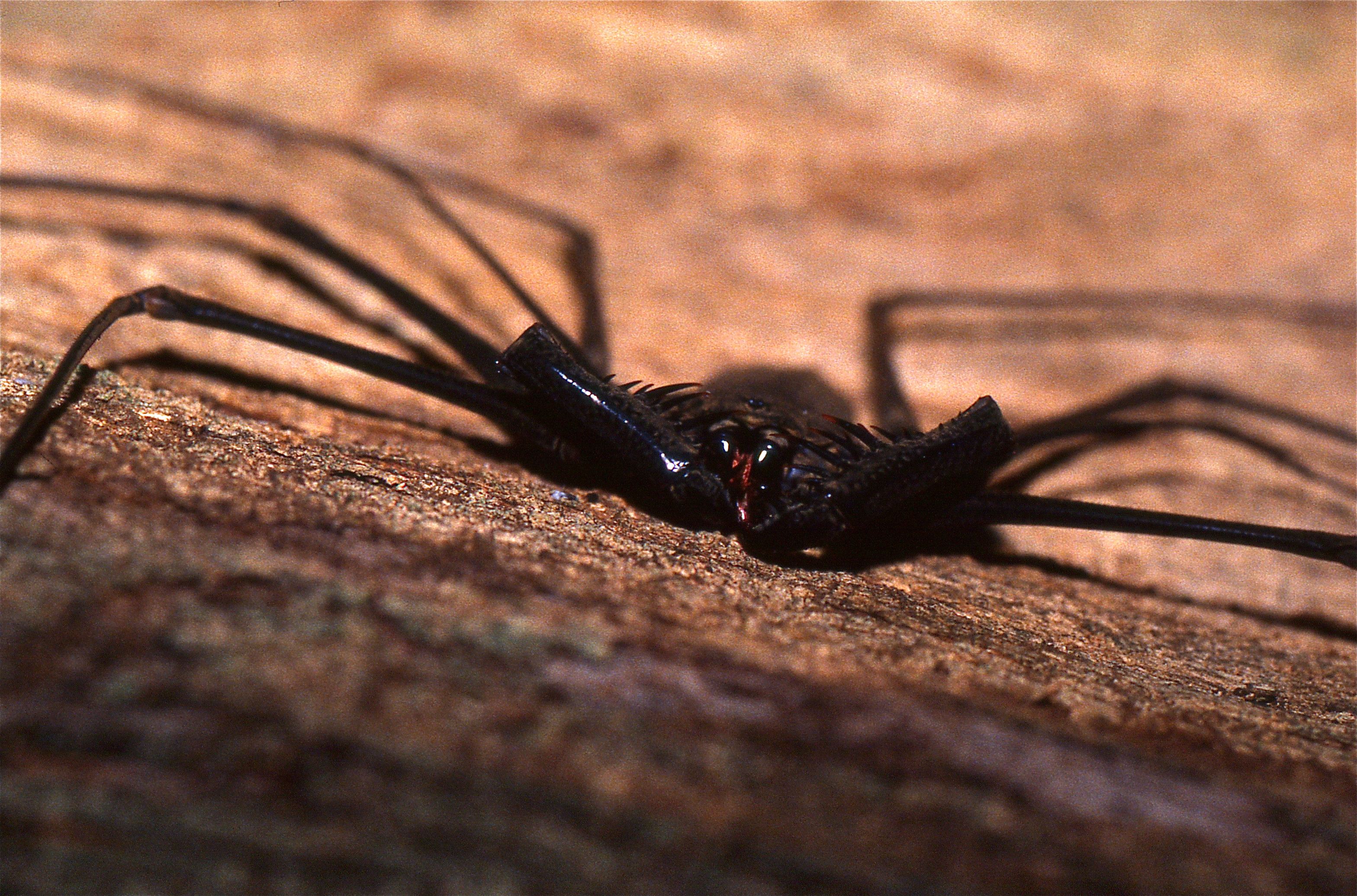 Santa Rosa NP, Cañas, COSTA RICA Scanned Slide from January 1997